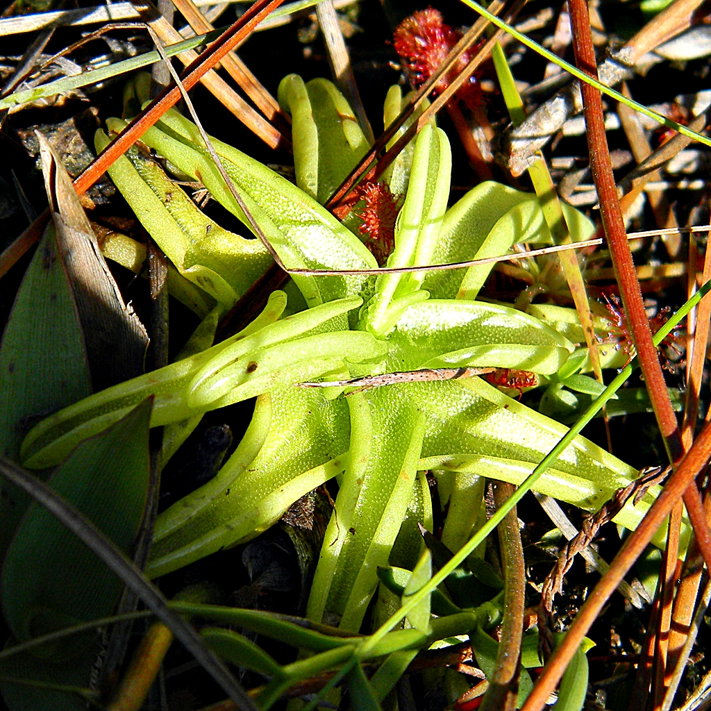 The sticky, basal leaves trap and digest insects.